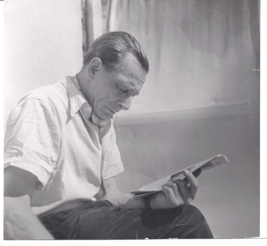 Moshe Ya'akov Ben-Gavriel